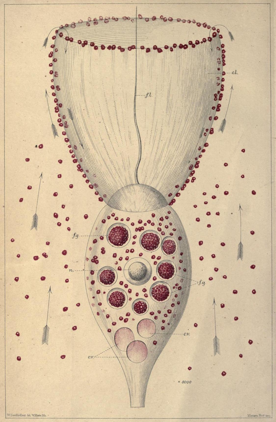 The feeding mechanism of the choanoflagellate Monosiga gracilis revealed by Saville-Kent using carmine particles (Kent 1880–1882